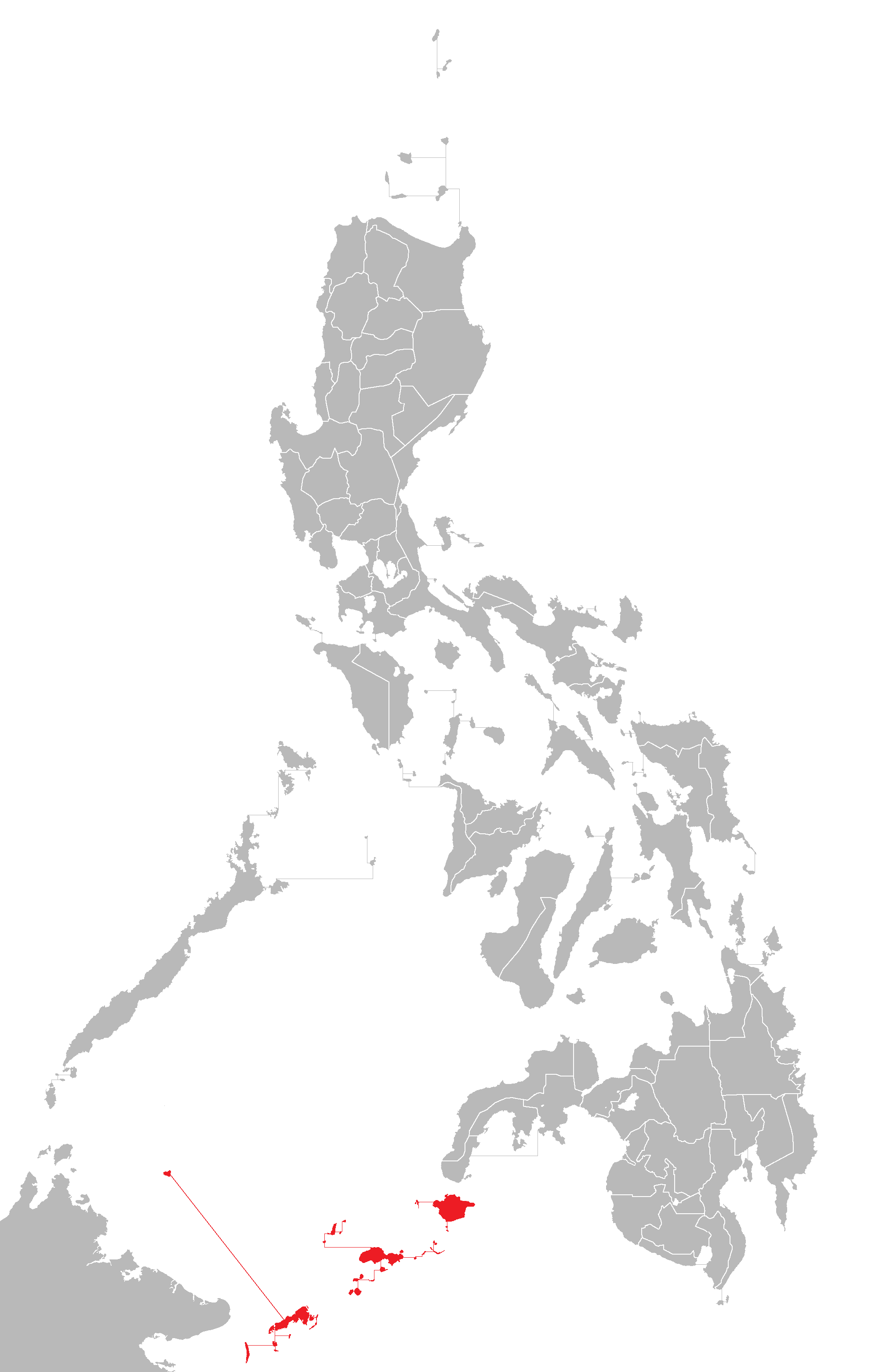 Derived from File:BlankMap-Philippines.png Map of Sulu Islands In red